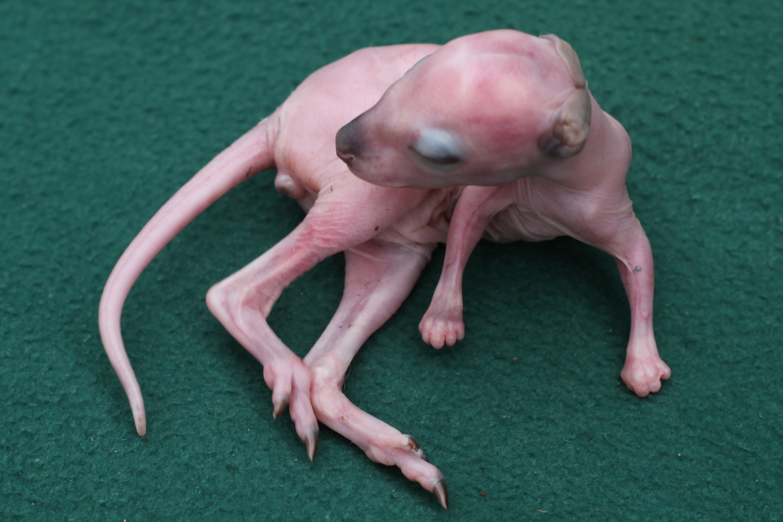 Swamp wallaby, Wallabia bicolor, "pinky" stage joey; wild animal.